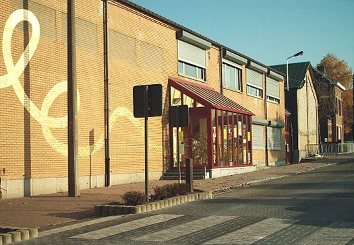 Engis Cultural Center, located in Hermalle-sous-Huy, Belgium